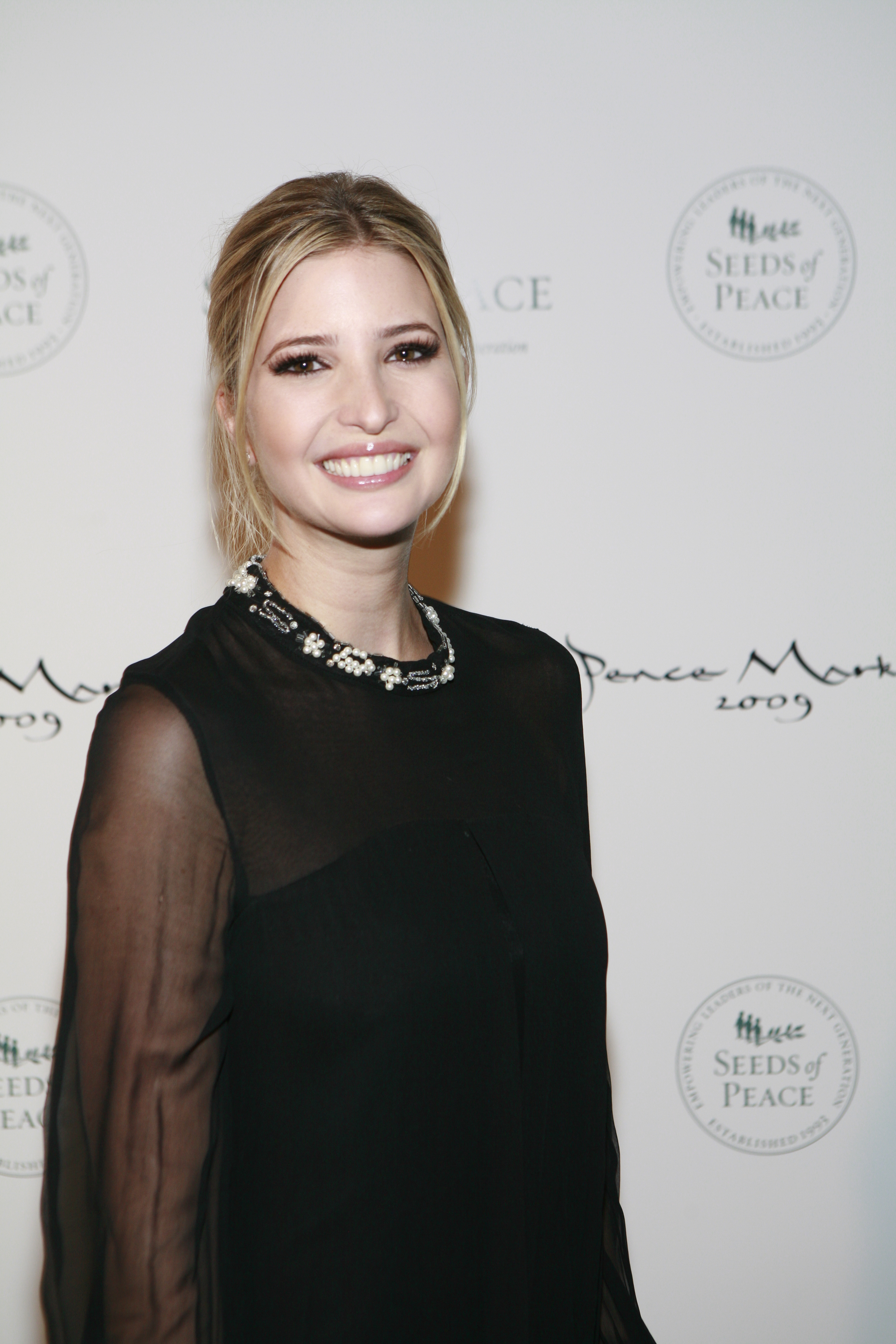 Ivanka Trump © Patrick McMullan (SHAUN MADER/PatrickMcMullan.com)